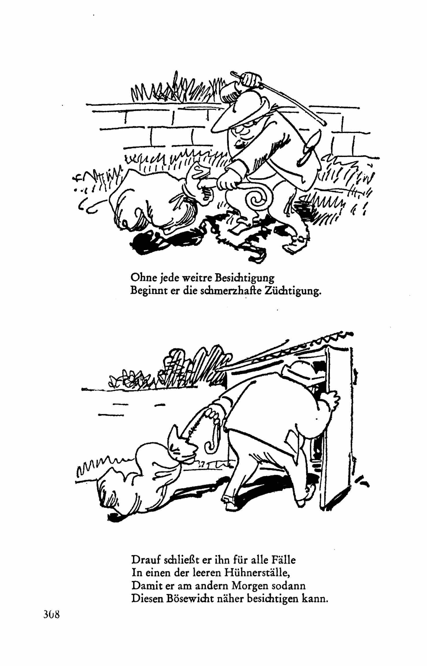 This is a scan of the historical document